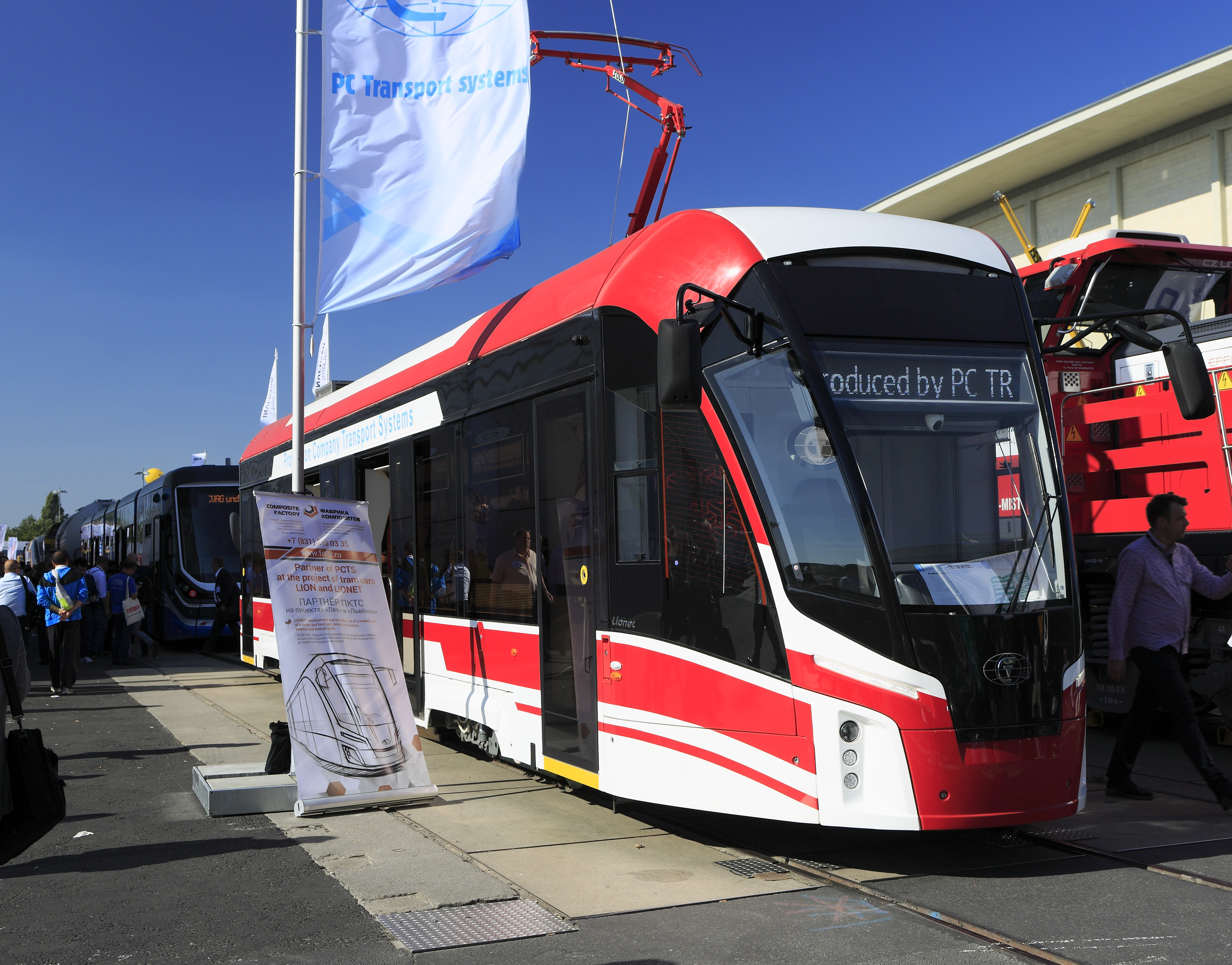 Tram type 71-911EM Lionet by PC Transport Systems at Innotrans 2018 fair in Berlin, Germany